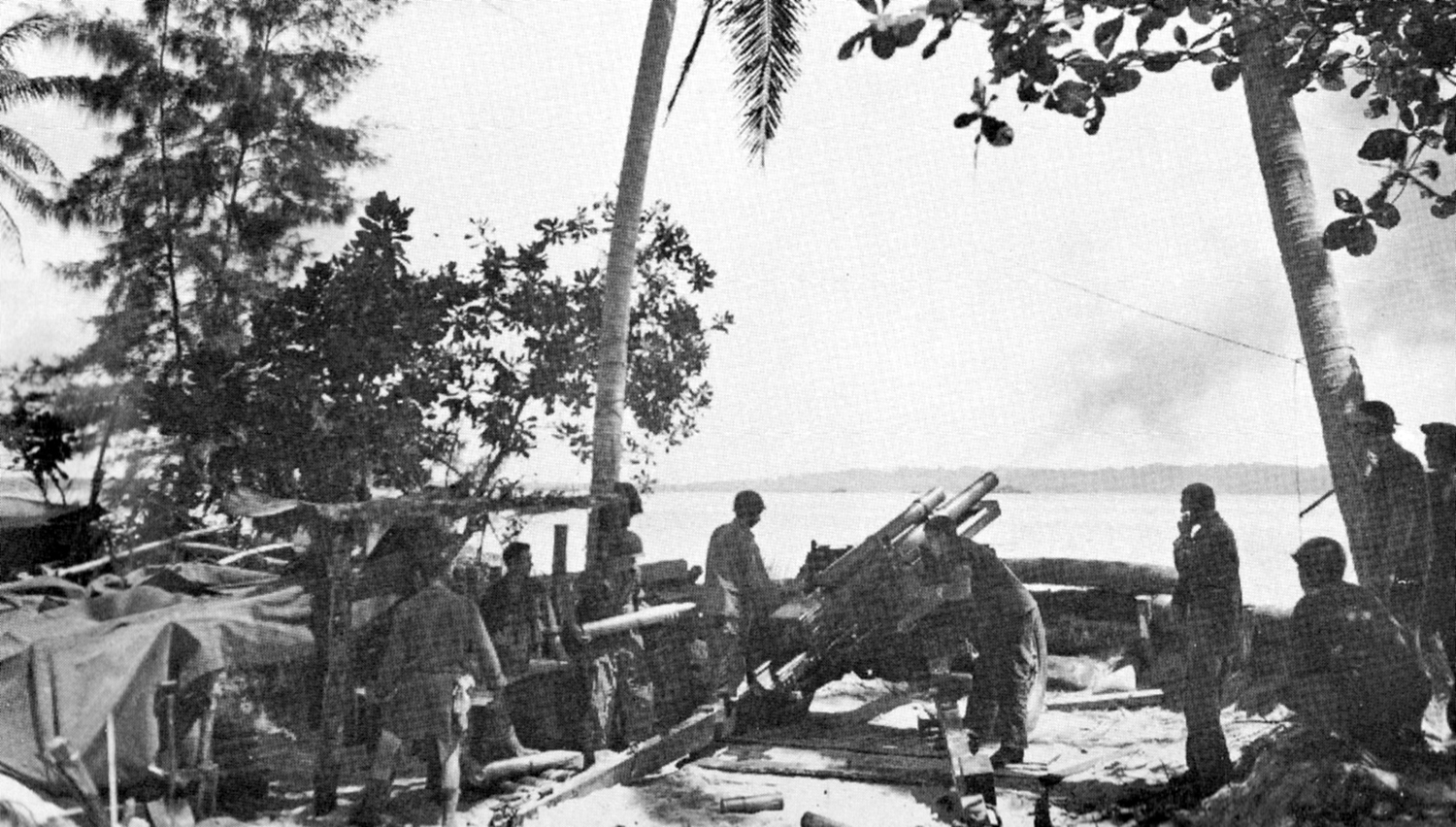 Shelling Manus Island ftom Los Negros in March 1944